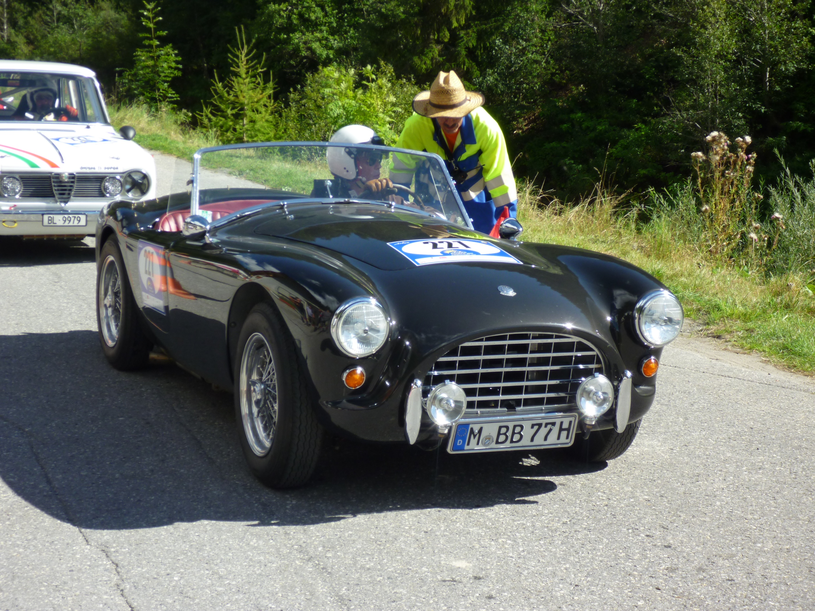 actor Peter Kraus at Arosa ClassicCar race